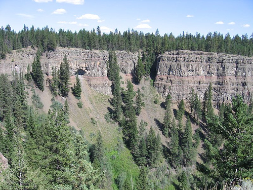 Chilcotin flood basalts and trees in Chasm Provincial Park